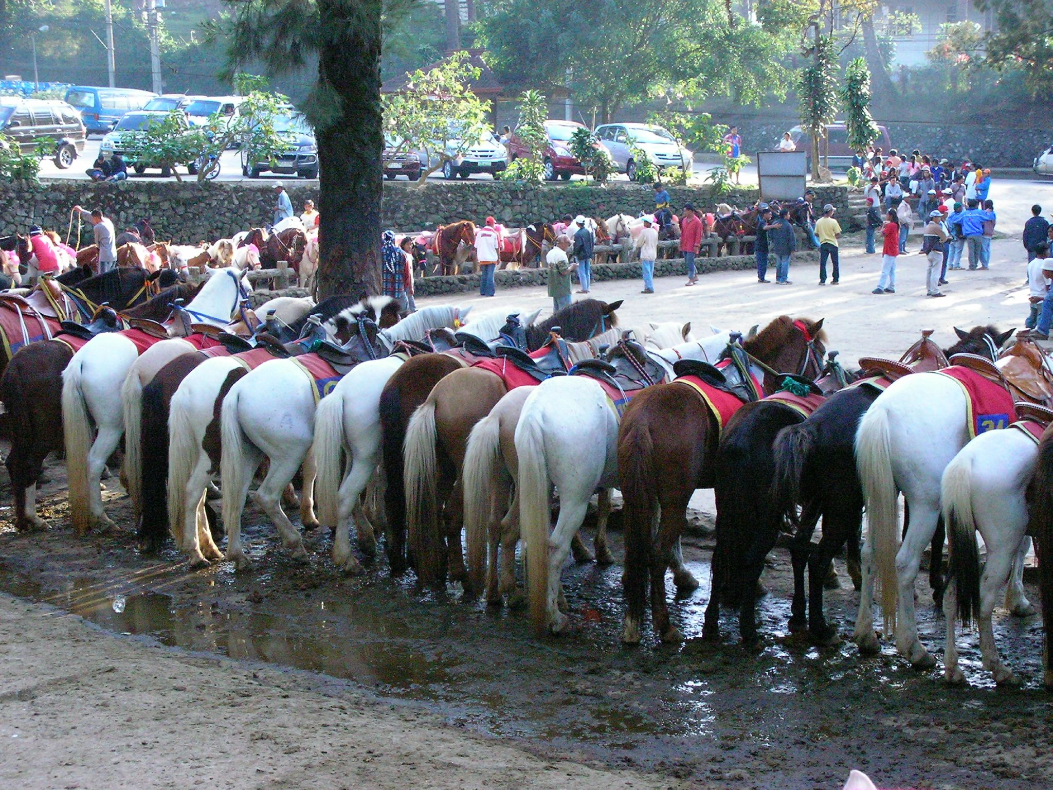 Horses in baguio, philippines